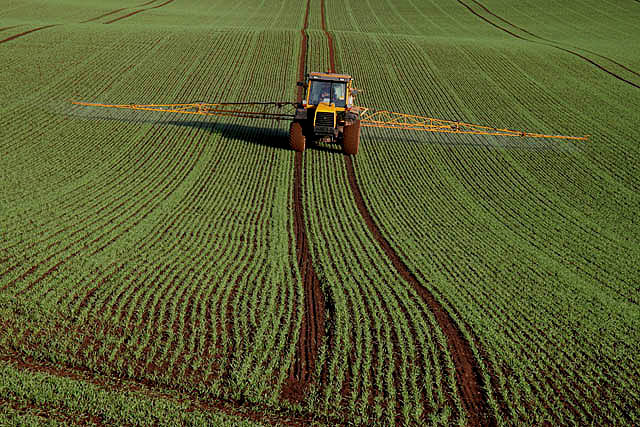 Crop spraying at Rulesmains Farm, Duns, Scottish Borders. This gently undulating and sloping field is on the northeast side of Duns.